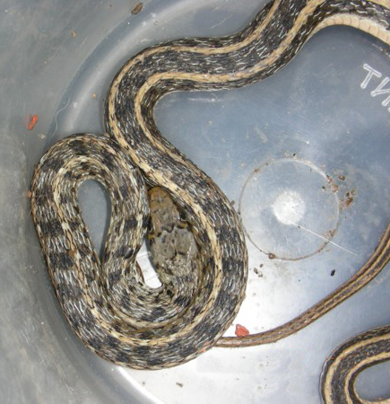 Buff-striped keelback, Amphiesma stolata, Family Colubridinae, Serpentes. Snake closeup in the biscuit box. The snake was released safely later on. Image taken on 17 Jul 06 in Binnaguri, Duars, northern West Bengal, India by AshLin.